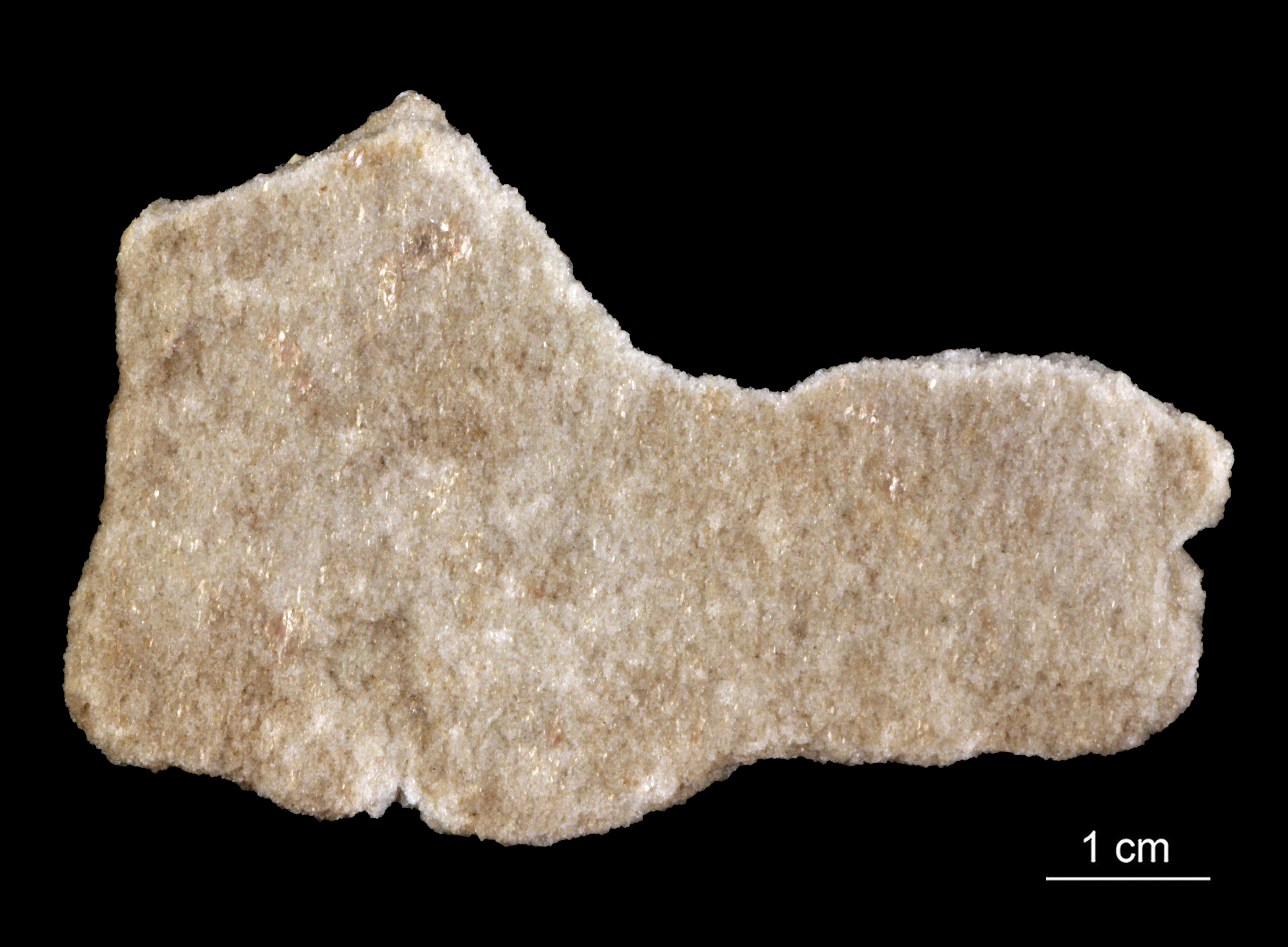 Itacolumite. More info about this file and about this specimen at